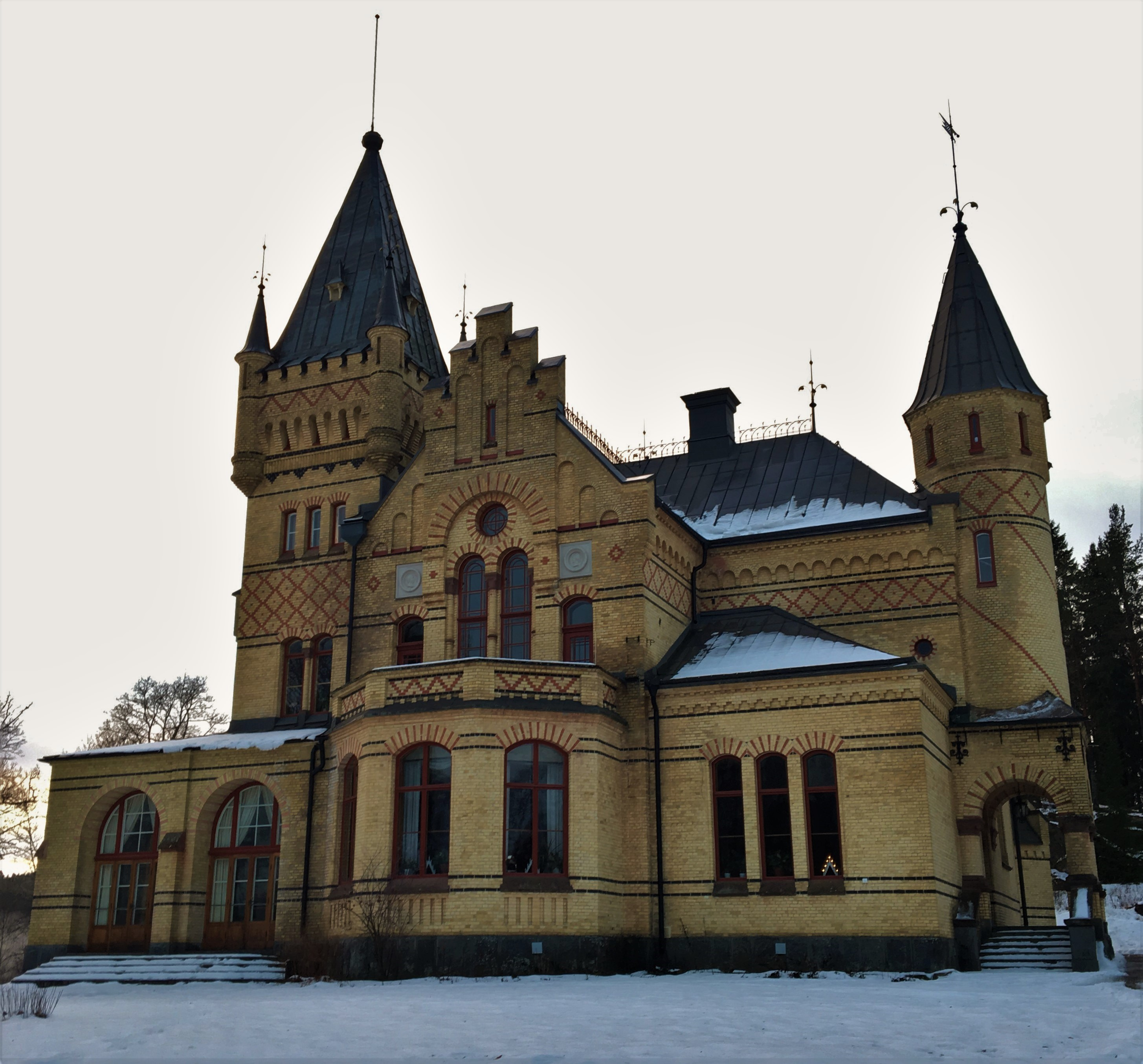 Merlo slott, 5 January 2019.